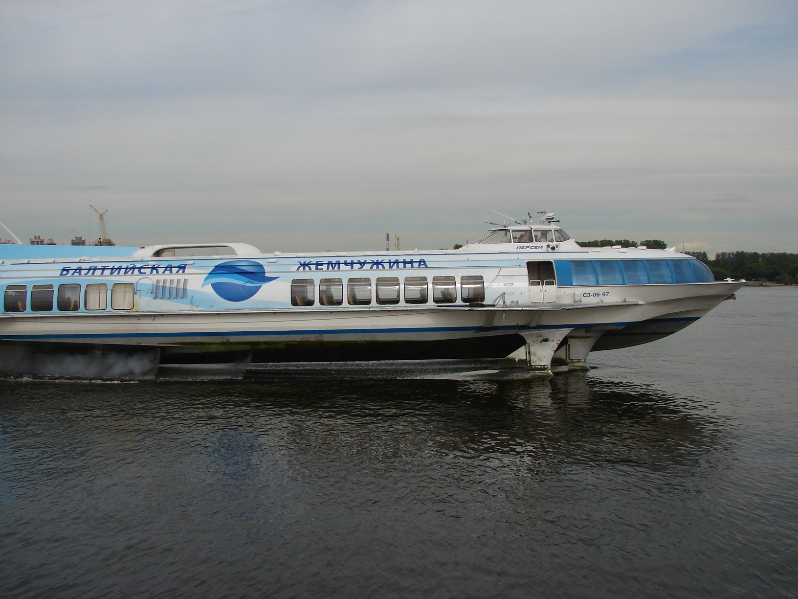 A Meteor-class hydrofoil on the Neva river, St. Petersburg. Starboard view.